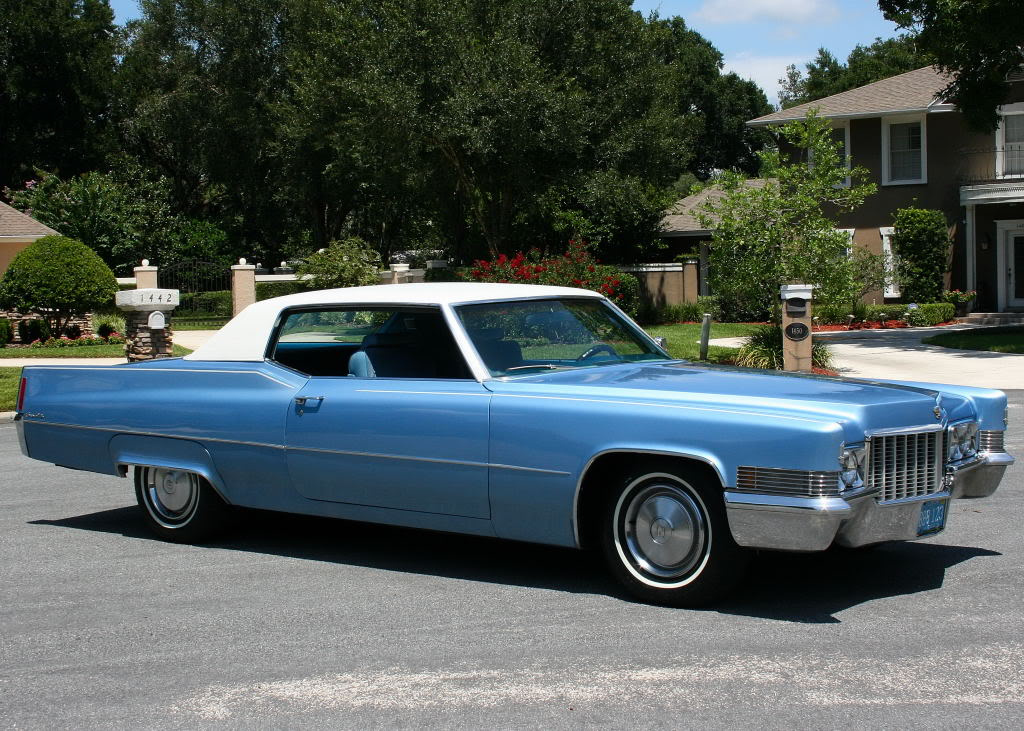 This is a picture of a vehicle (name of it is on the file name).